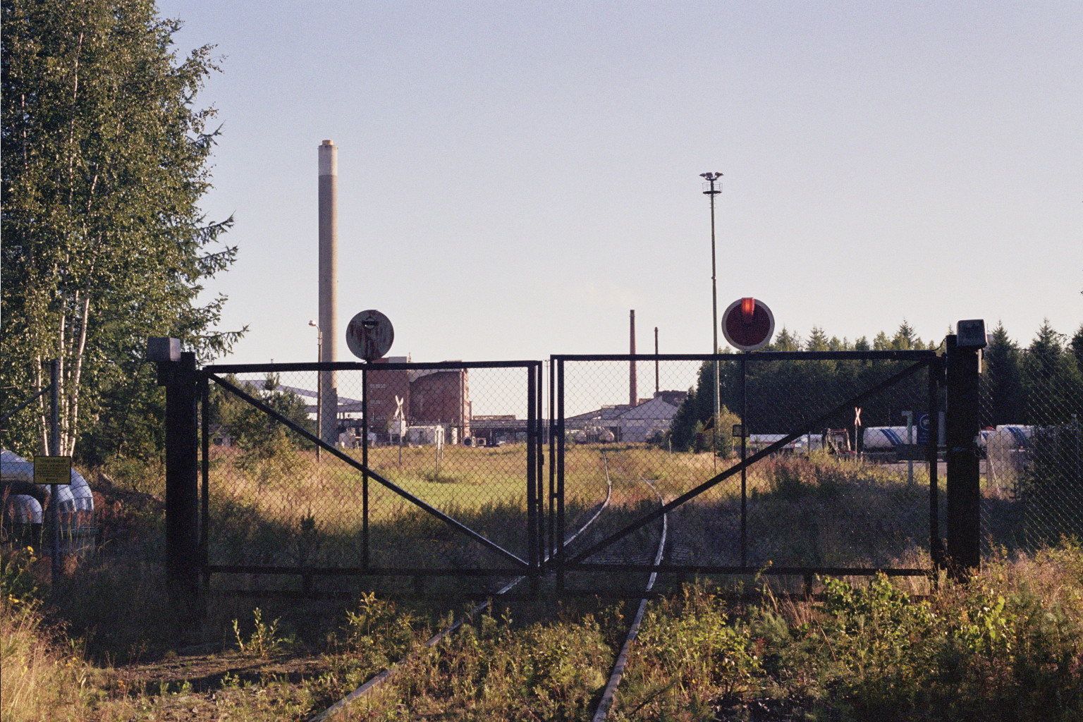 Kemira's factory in Takalaanila, Oulu, Finland. Photo not taken from the main gate of the factory area. =)